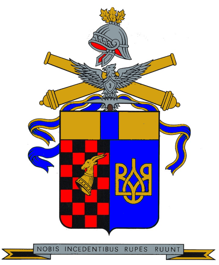 Coat of Arms of the 3º Mountain Artillery Regiment (year 1974); Italian Army.